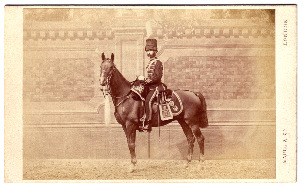 Photograph of Lieut. 14th (The King's) Hussars